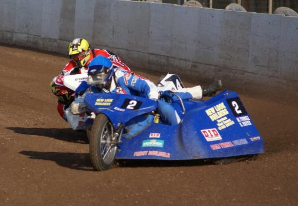 Matt Tyrrell/Shaun Yates